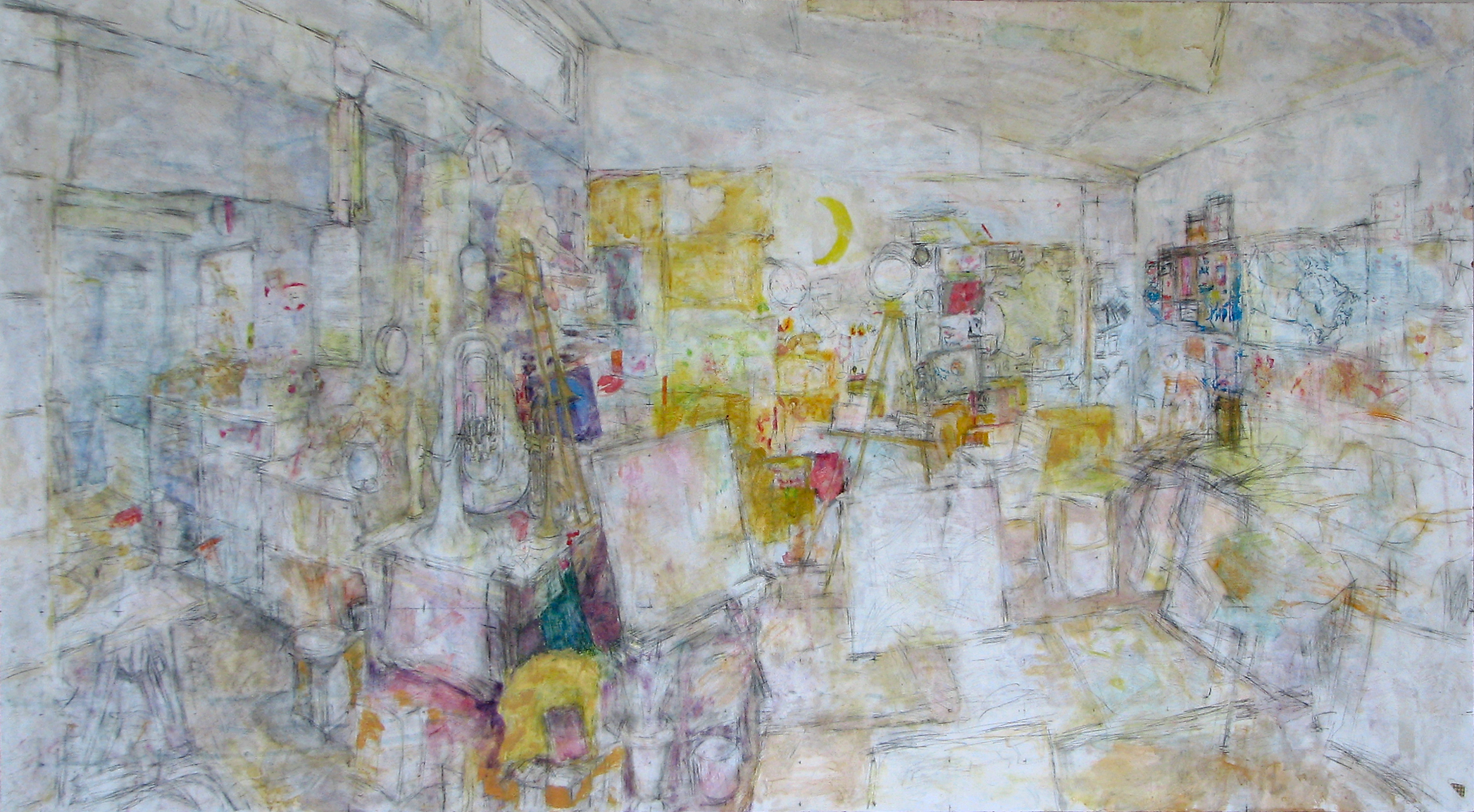 oil on masonite, 98 x 181 cm